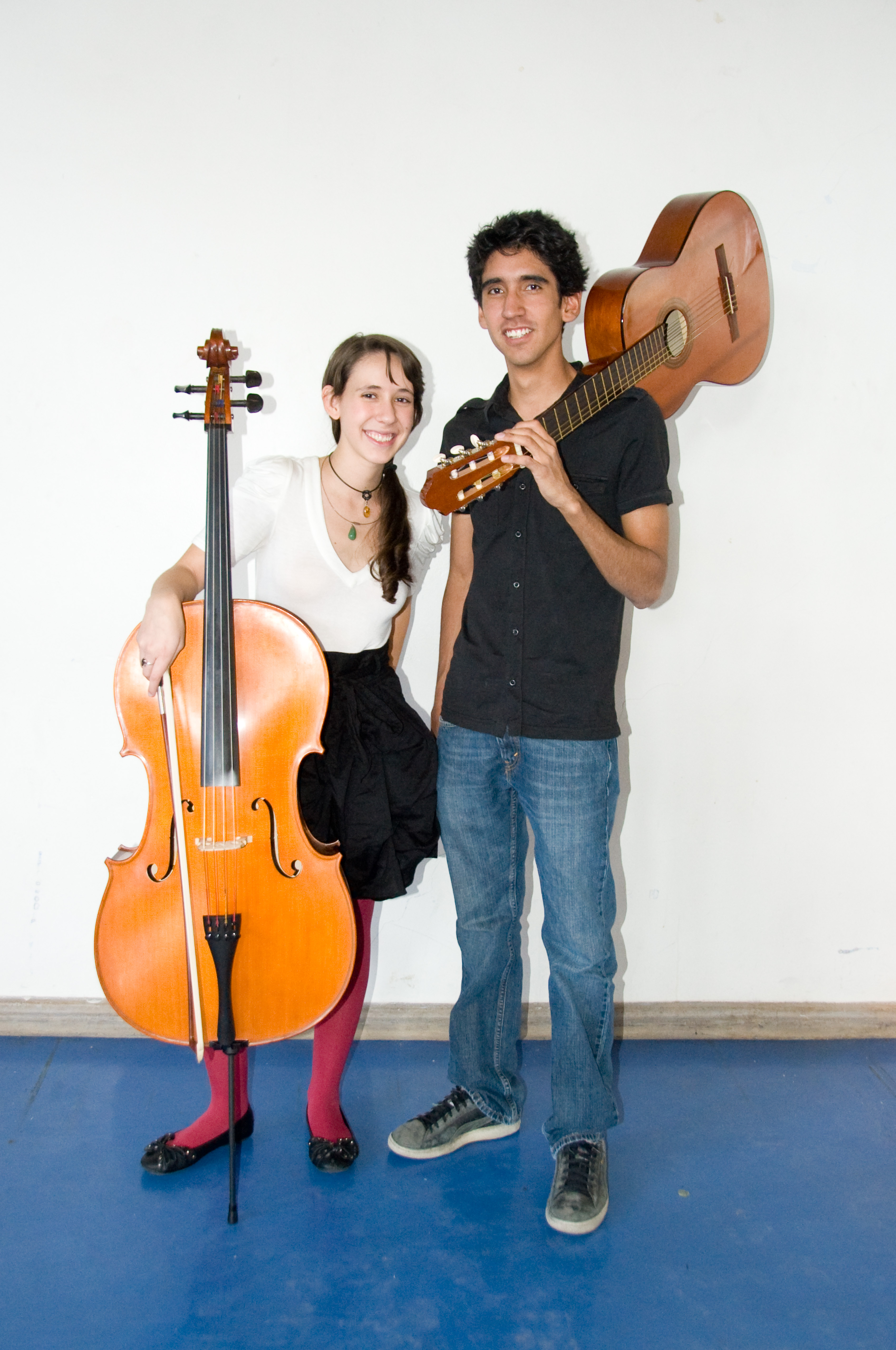 Musician of the Instrumental Ensamble representative group at ITESM CCM